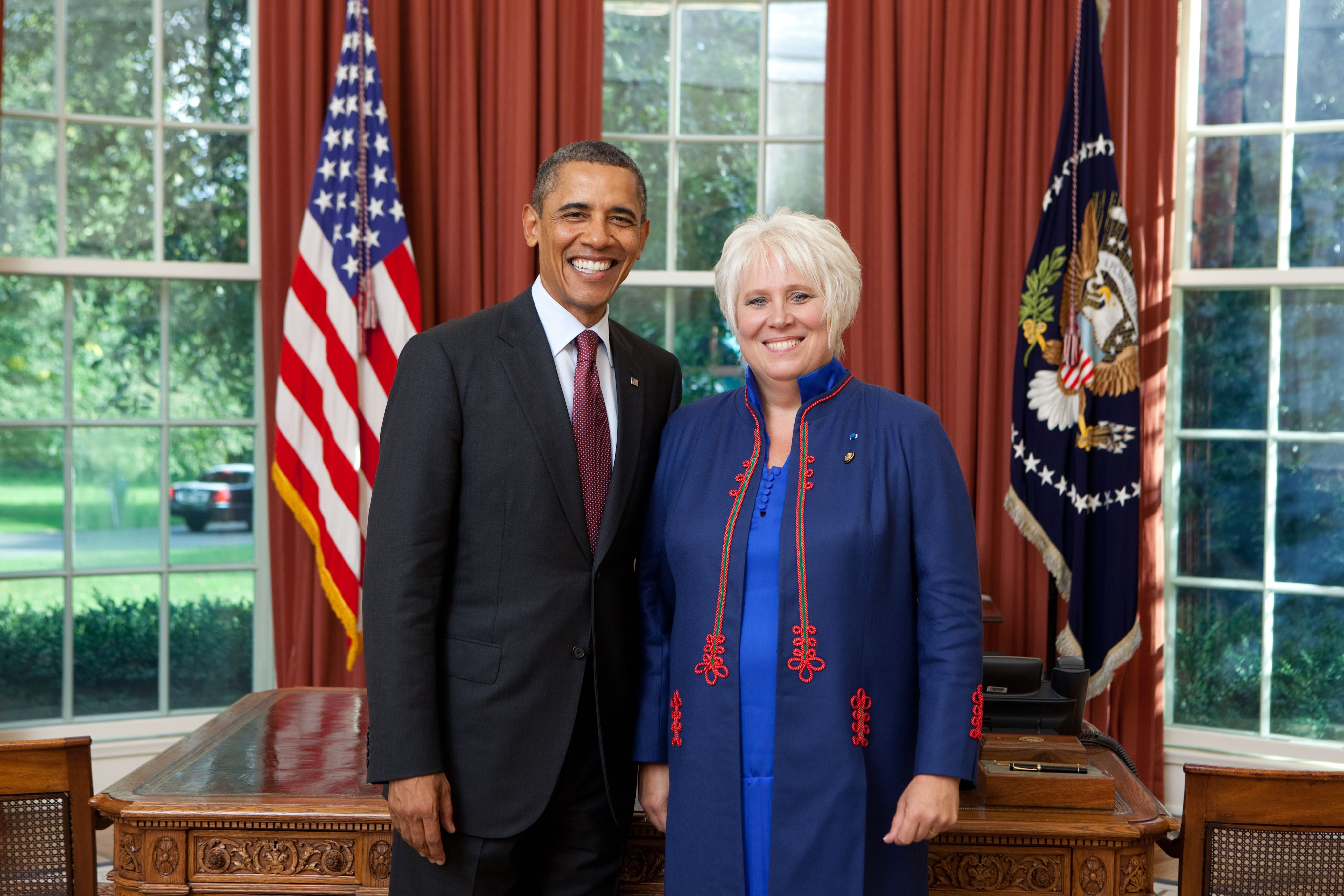 President Barack Obama and Estonian Ambassador to USA Marina Kaljurand, in the Oval Office